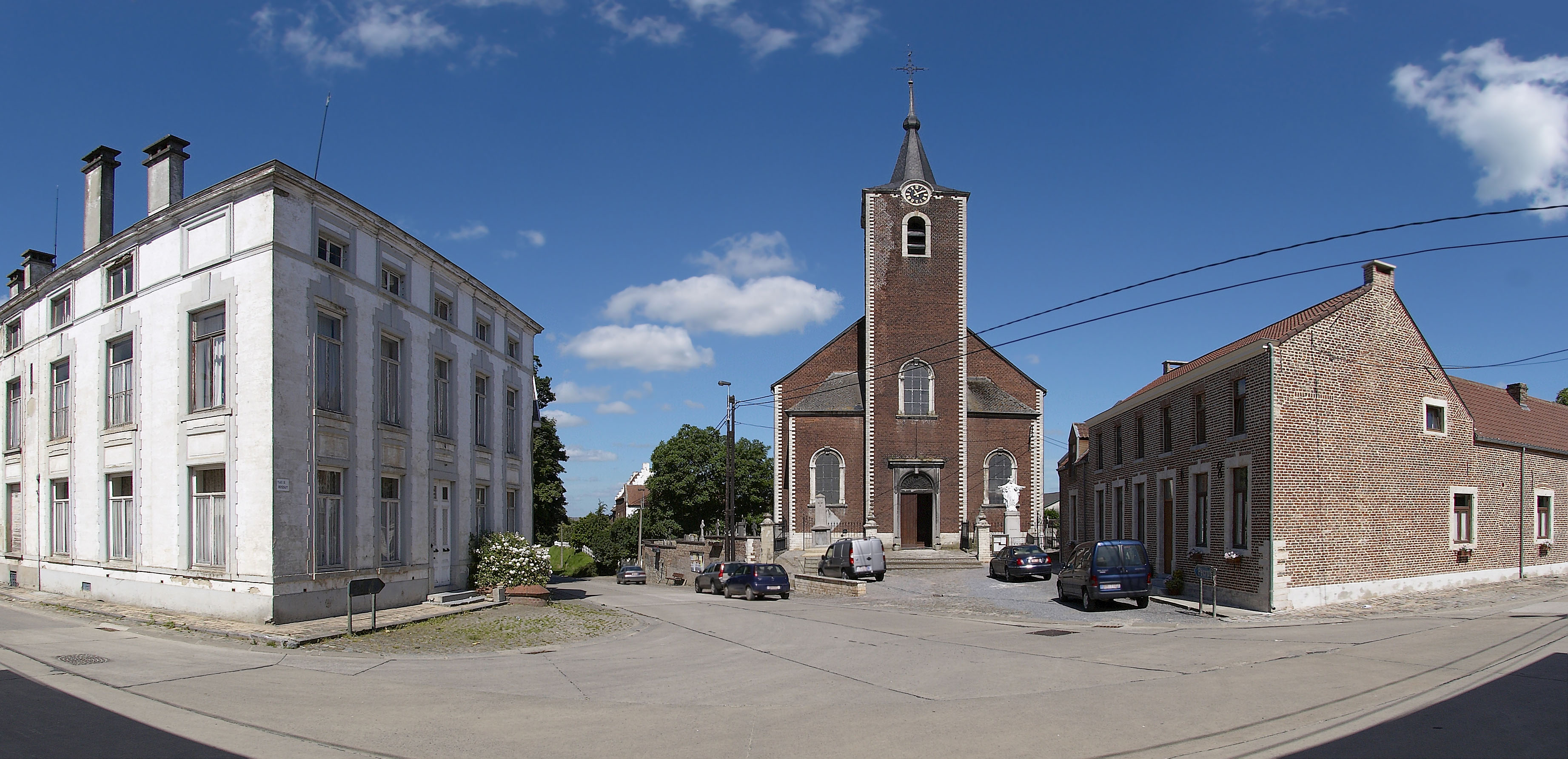 Notre-Dame de l'Assomption church in Bossut-Gottechain, Belgium